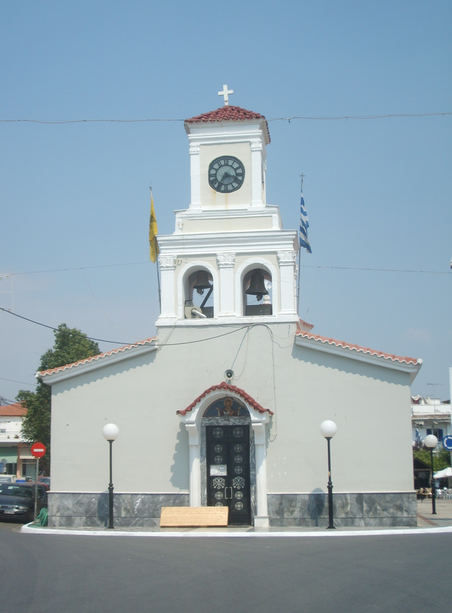 Cathedral of Gargaliani, Messinia, Greece